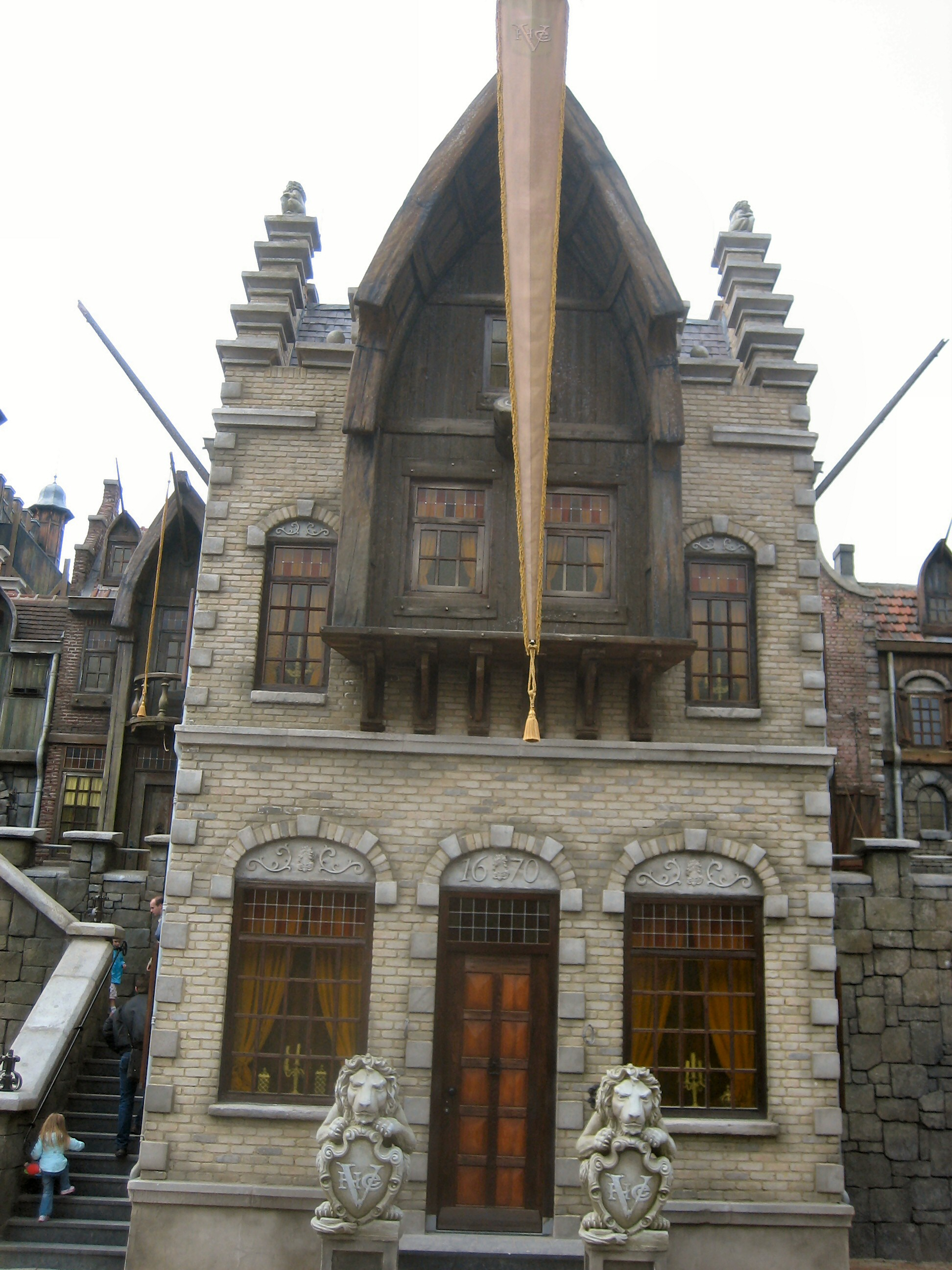 Vliegende Hollander (Flying Dutchman) De Efteling Kaatsheuvel The Netherlands Photo taken by Hullie Sunday 23 April 2006